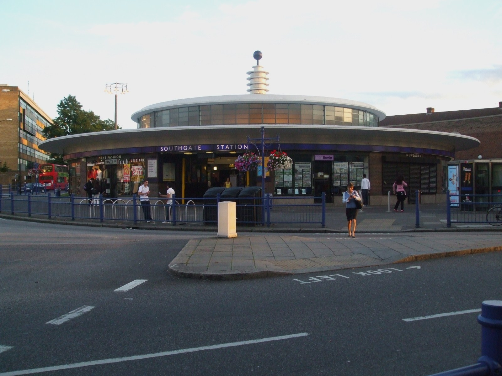 Southgate tube station building